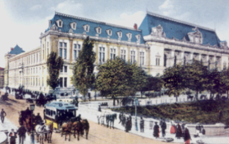 Bucharest Palace of Justice